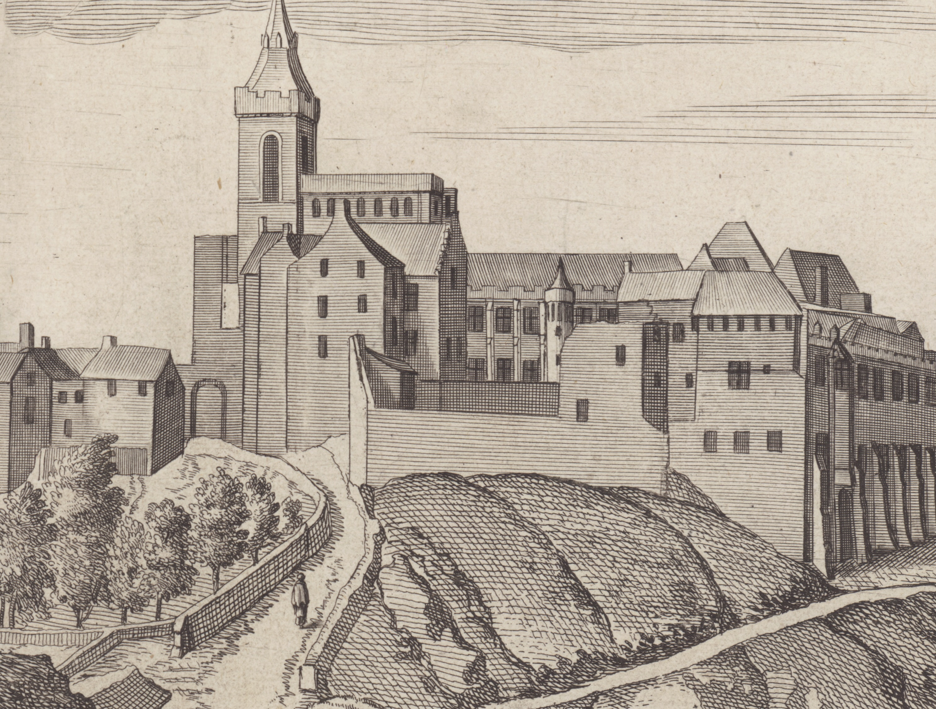 Detail of Dunfermline Abbey from John Slezer's Theatrum Scotiae, 1693